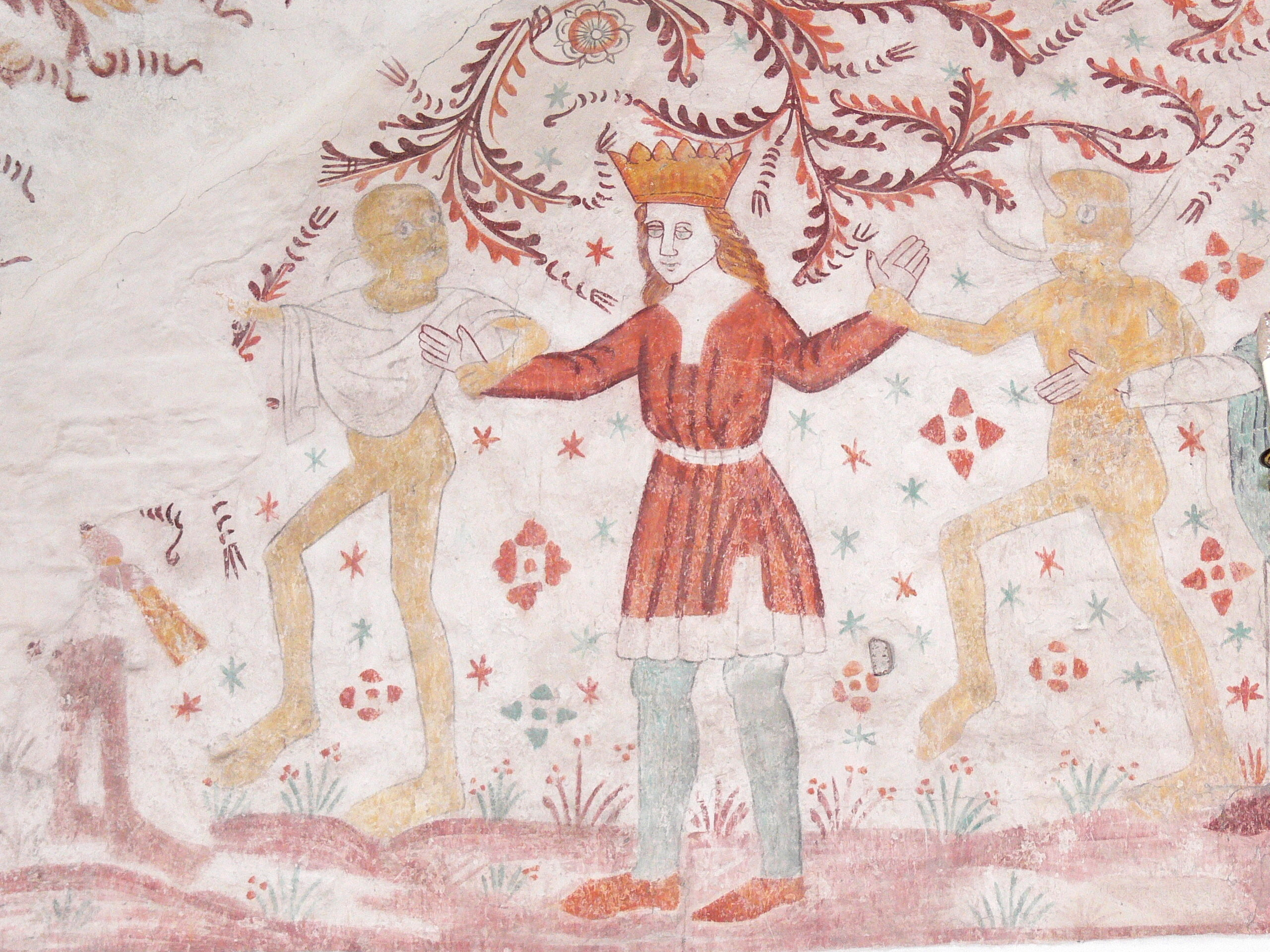 Nørre Alslev church.Frescos of the Master of Elmelunde ( 14th century ): Danse Macabre - king.